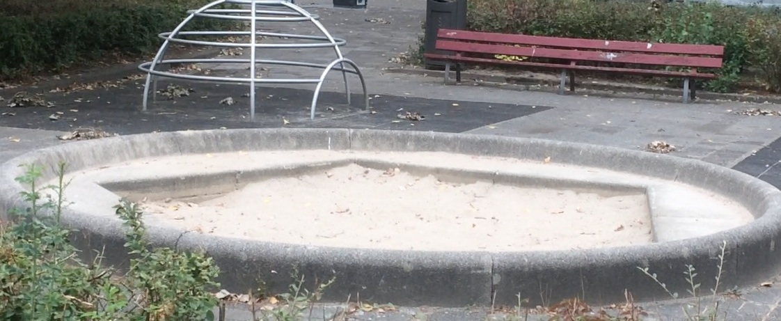 Sandbox and a globe-shaped climbing frame, Witte Klok, Osdorp, Amsterdam, nl